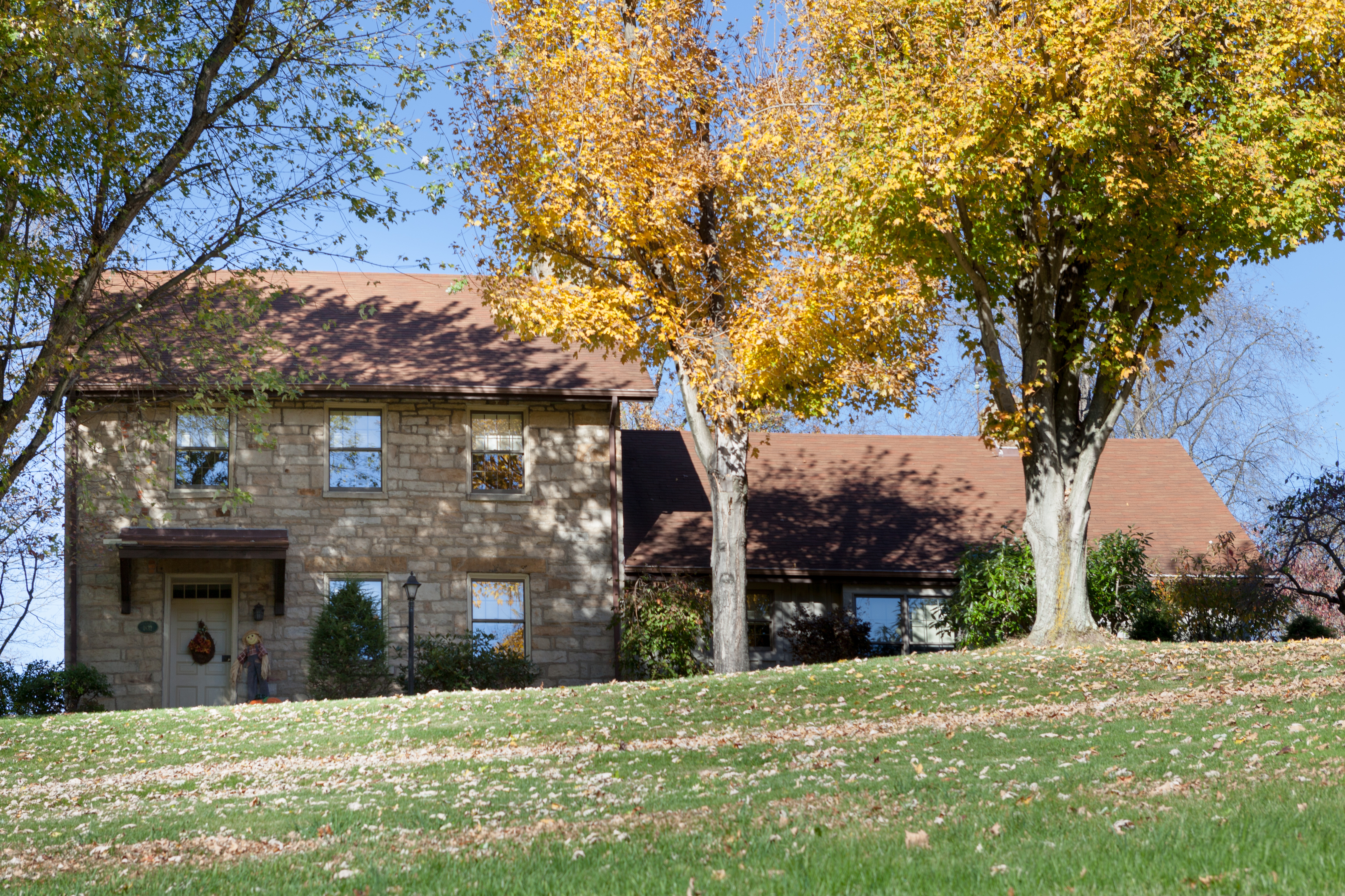 Dusmal House, a historic building in Gastonville, Pennsylvania, 4083 Filneyville Elrama Road.